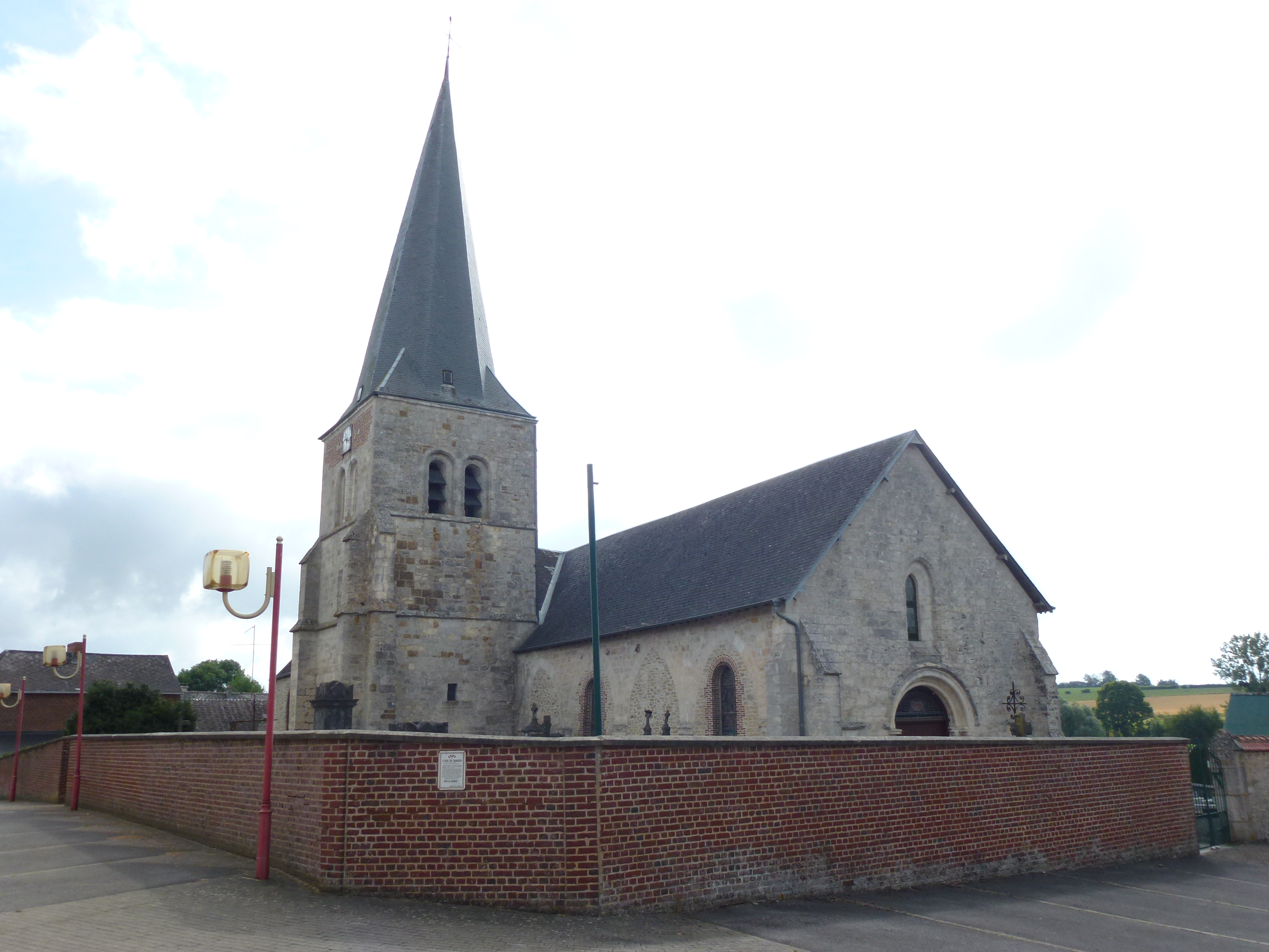 Any-Martin-Rieux (Aisne) église d'Any